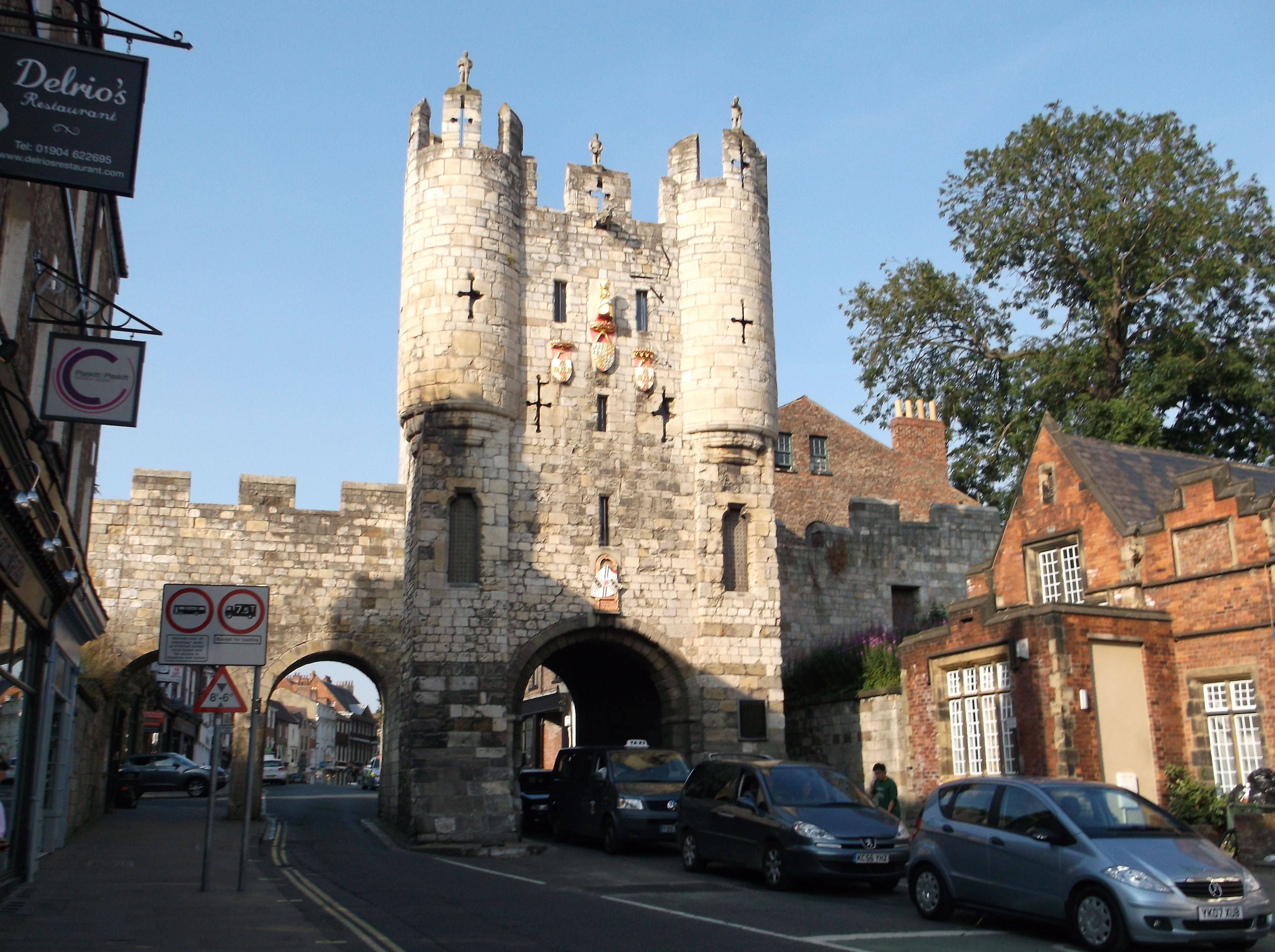 Mickelgate Bar on York city walls